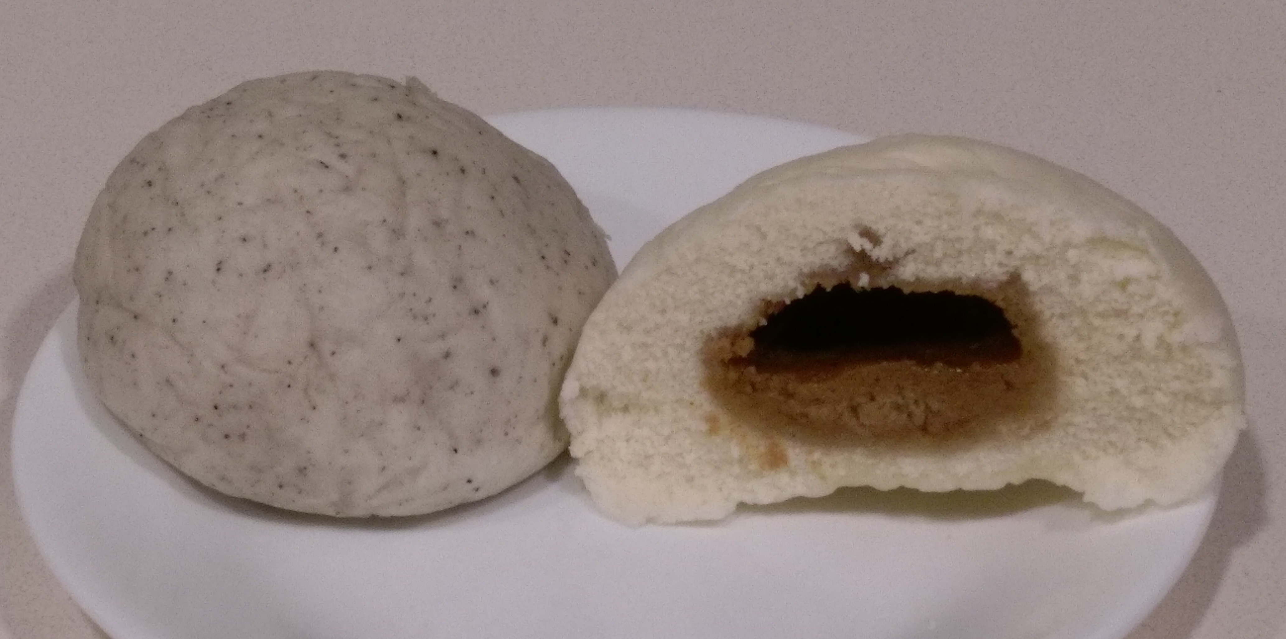 麻茸包 (Steamed Sesame bun), a kind of Cantonese dim sum.